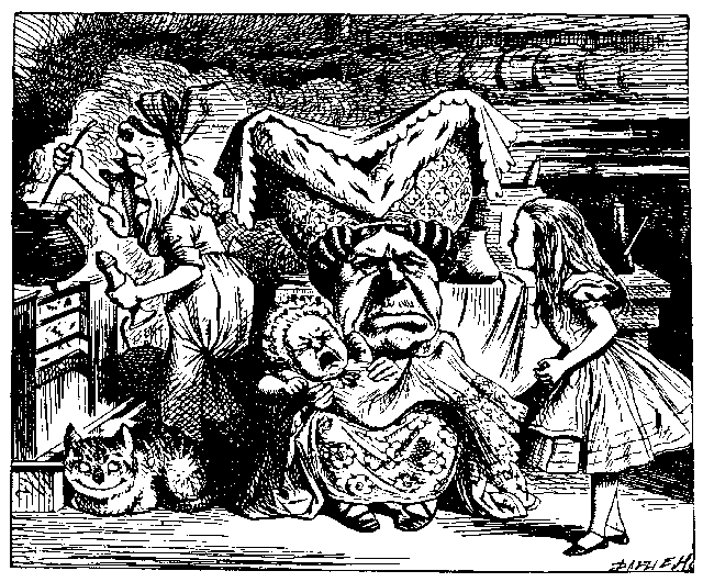 Illustration by John Tenniel, published in 1865 in Alice's Adventures in Wonderland.